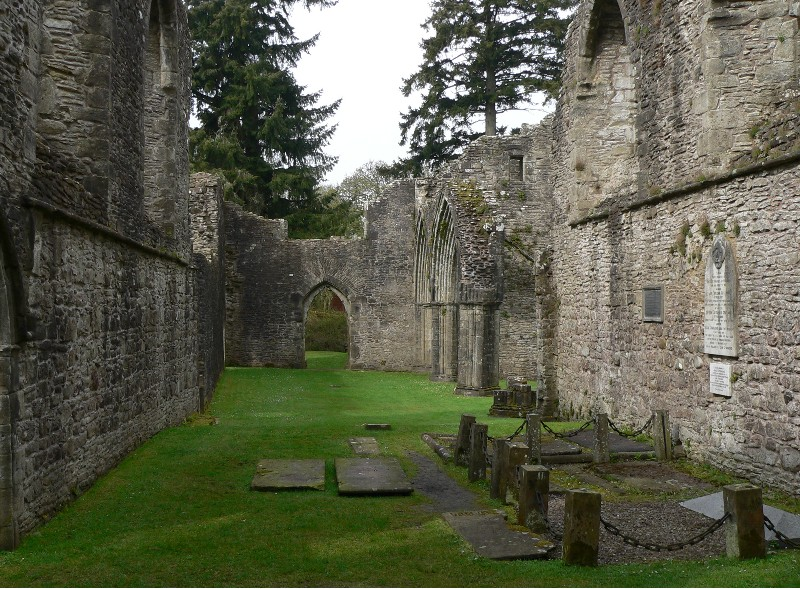 Inchmahome Priory, Scotland